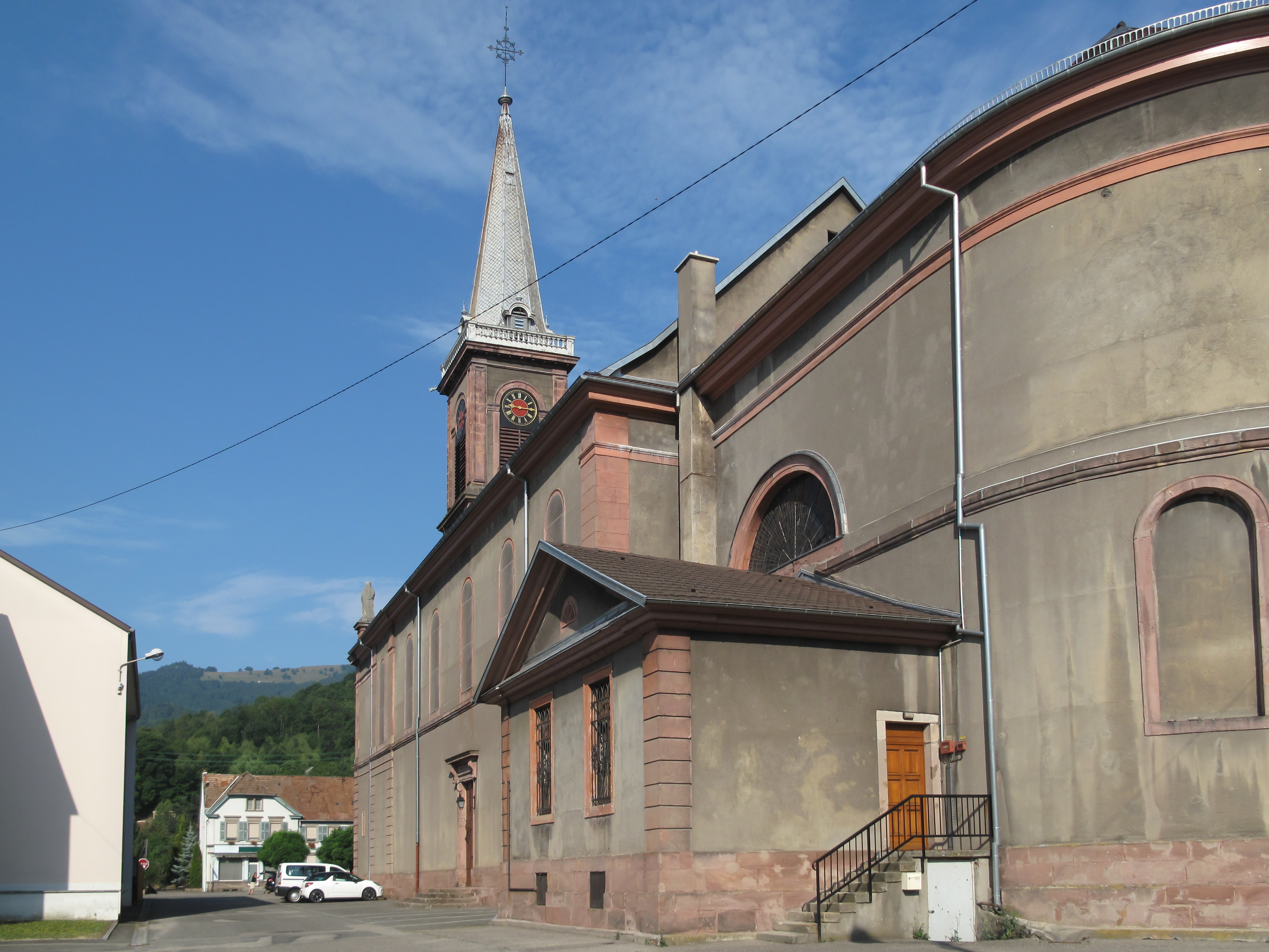 Bitschwiller les Thann, church: l'église Saint Alphonse